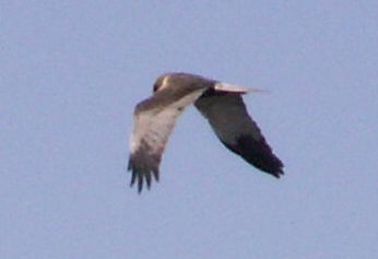 circus aeruginosus, adult, male in Lithuania